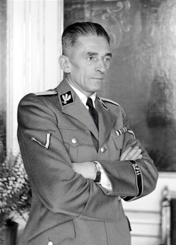 Karl Hermann Frank as SS-Gruppenführer, wearing RF-SS cuff title